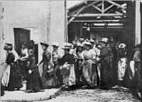 From the first Lumière film, "La sortie des usines Lumiere" (Workers Leaving the Lumière factory, 1895).